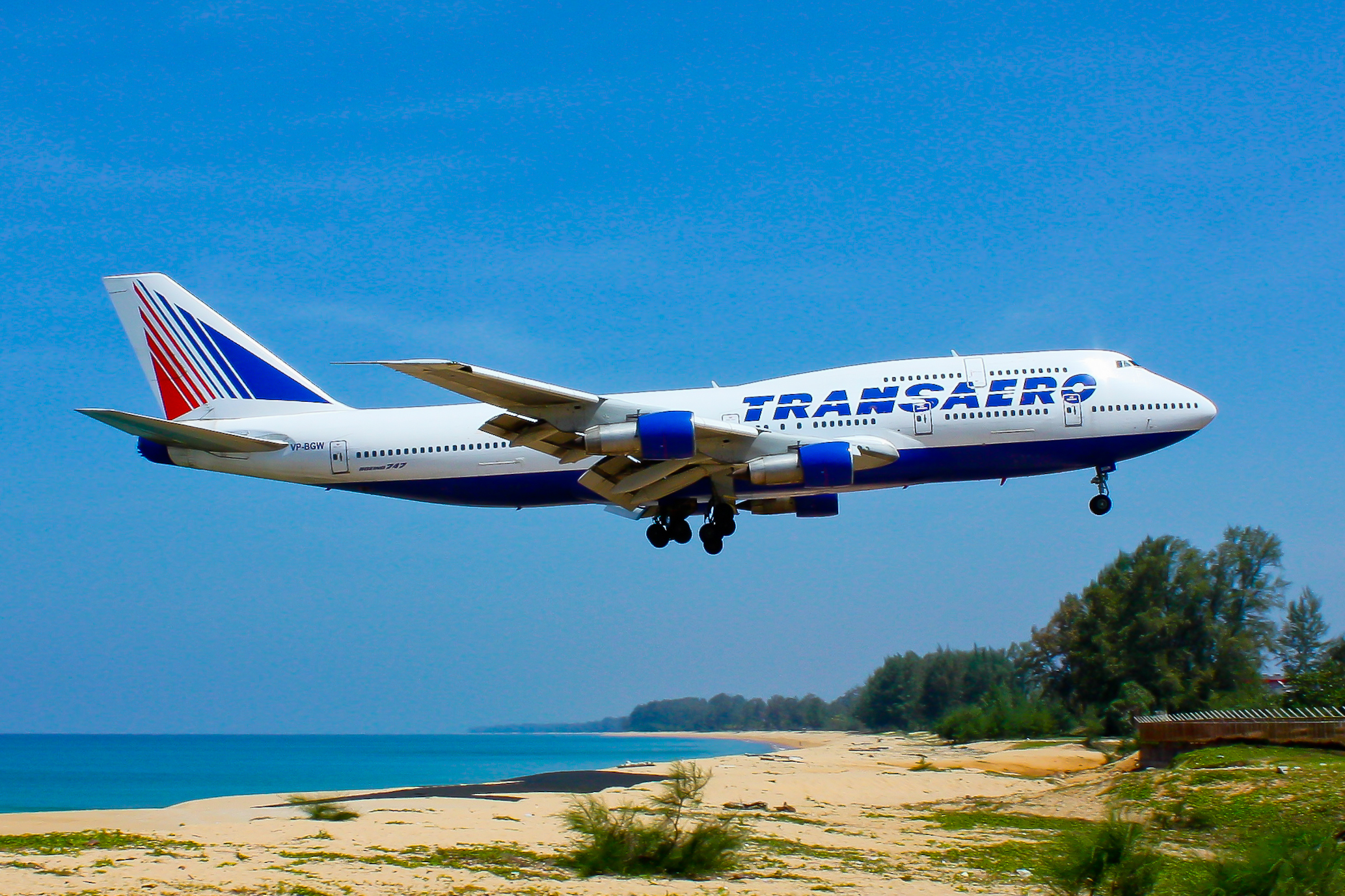 Transaero Airlines B747-300SR VP-BGW at Phuket Airport.